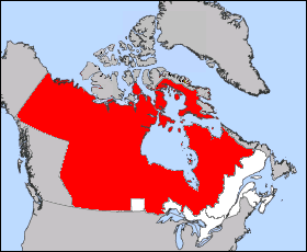 Map of the provinces (white) and territories (red) of Canada in 1870.